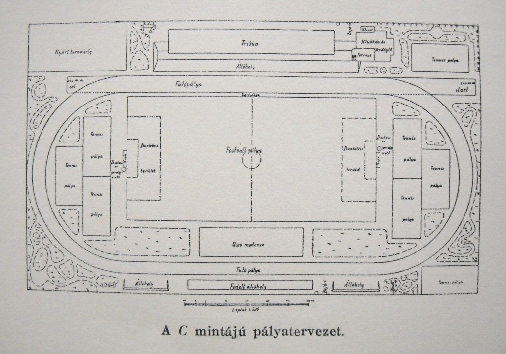 A proposed layout for an athletic field (C layout)